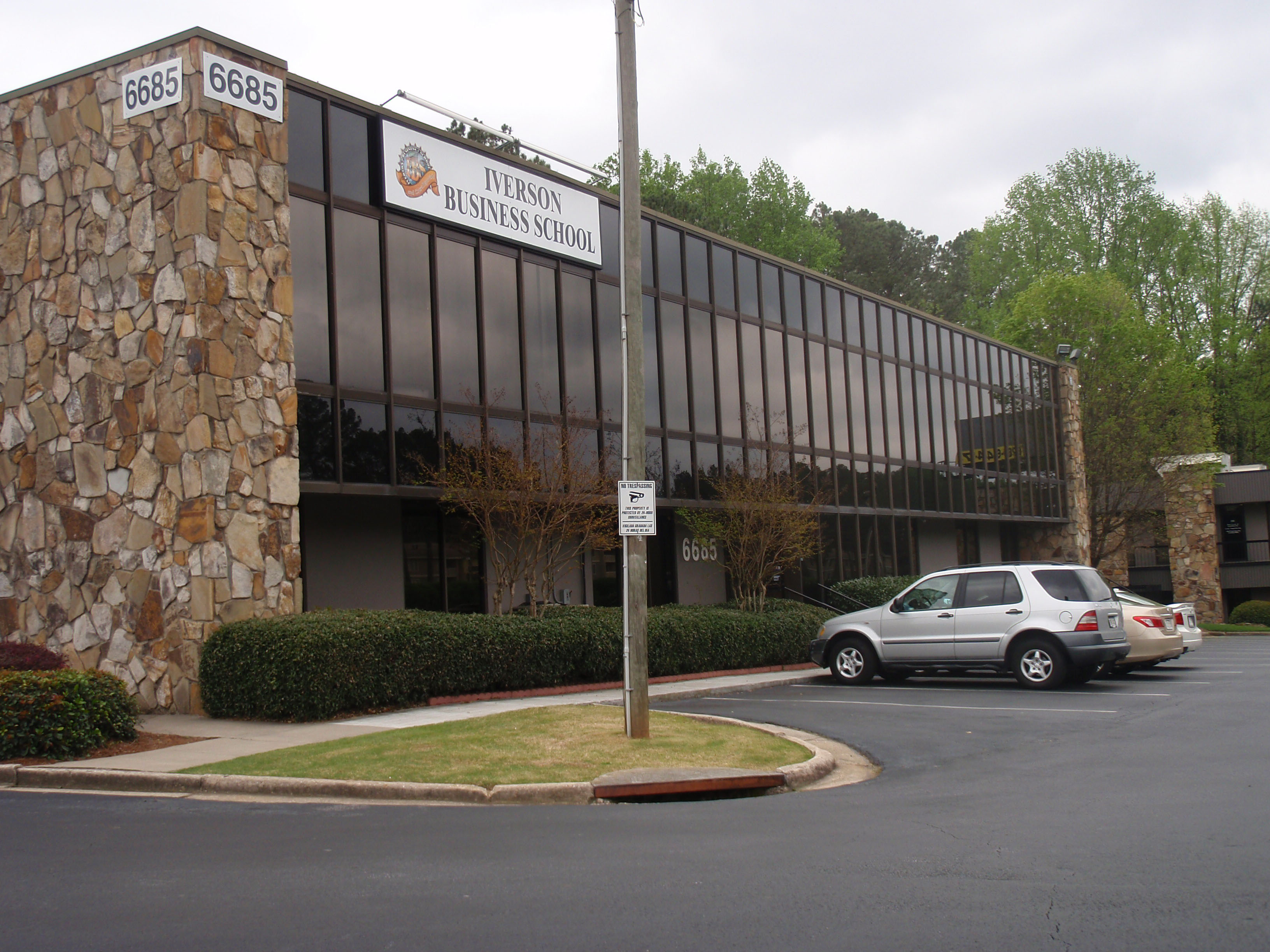 University of Atlanta 6685 Peachtree Industrial Blvd Atlanta, GA 30360 USA